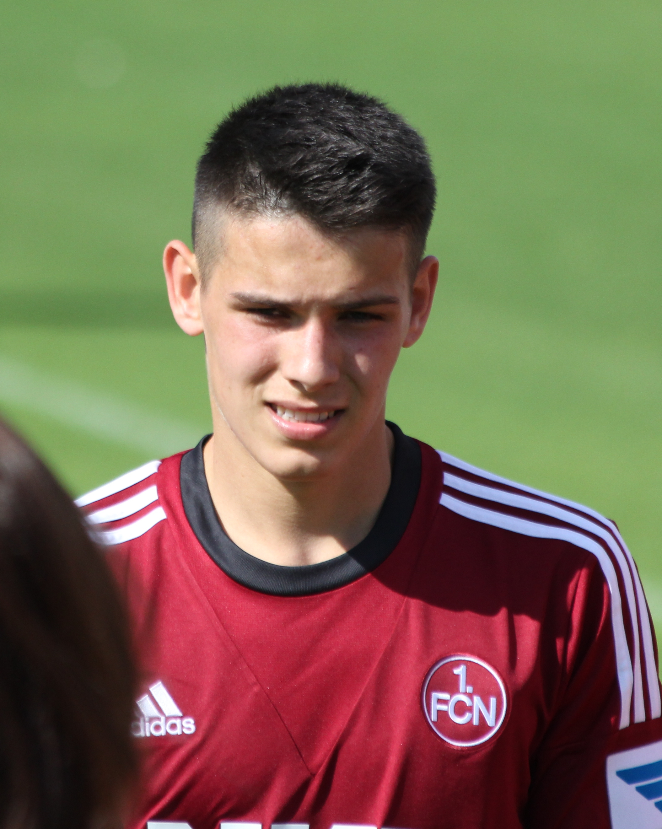 Mariusz Stępiński, football player for German side 1. FC Nürnberg, 2012/13 season, first training session